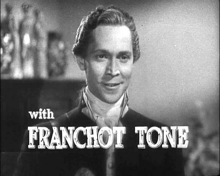 Franchot Tone in a screenshot from the trailer for the film Mutiny on the Bounty.